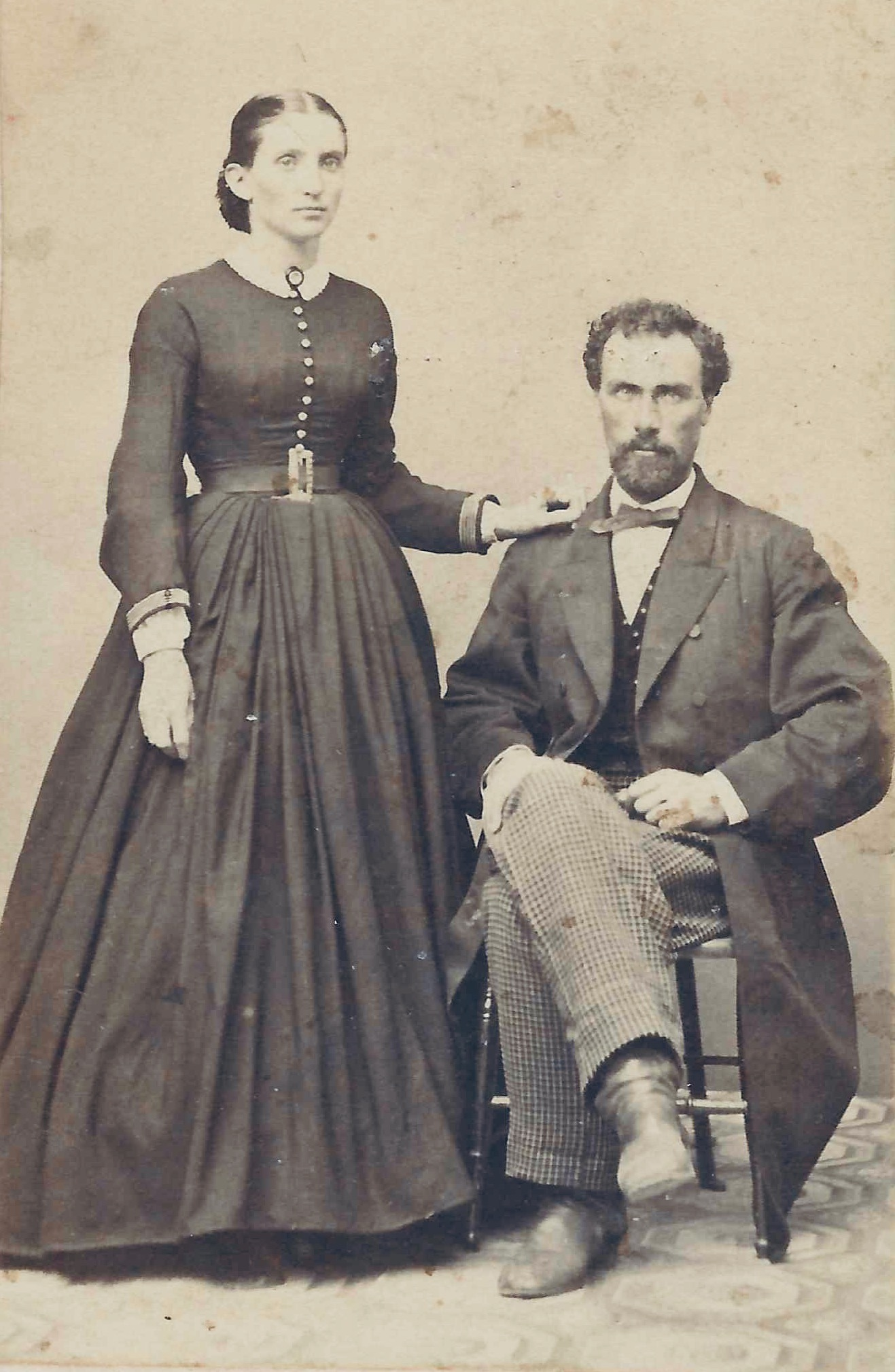 Picture of Frances and William Helm by J. A. Todd, Photographic Gallery, J Street, between 3rd and 4th St. Sacramento.